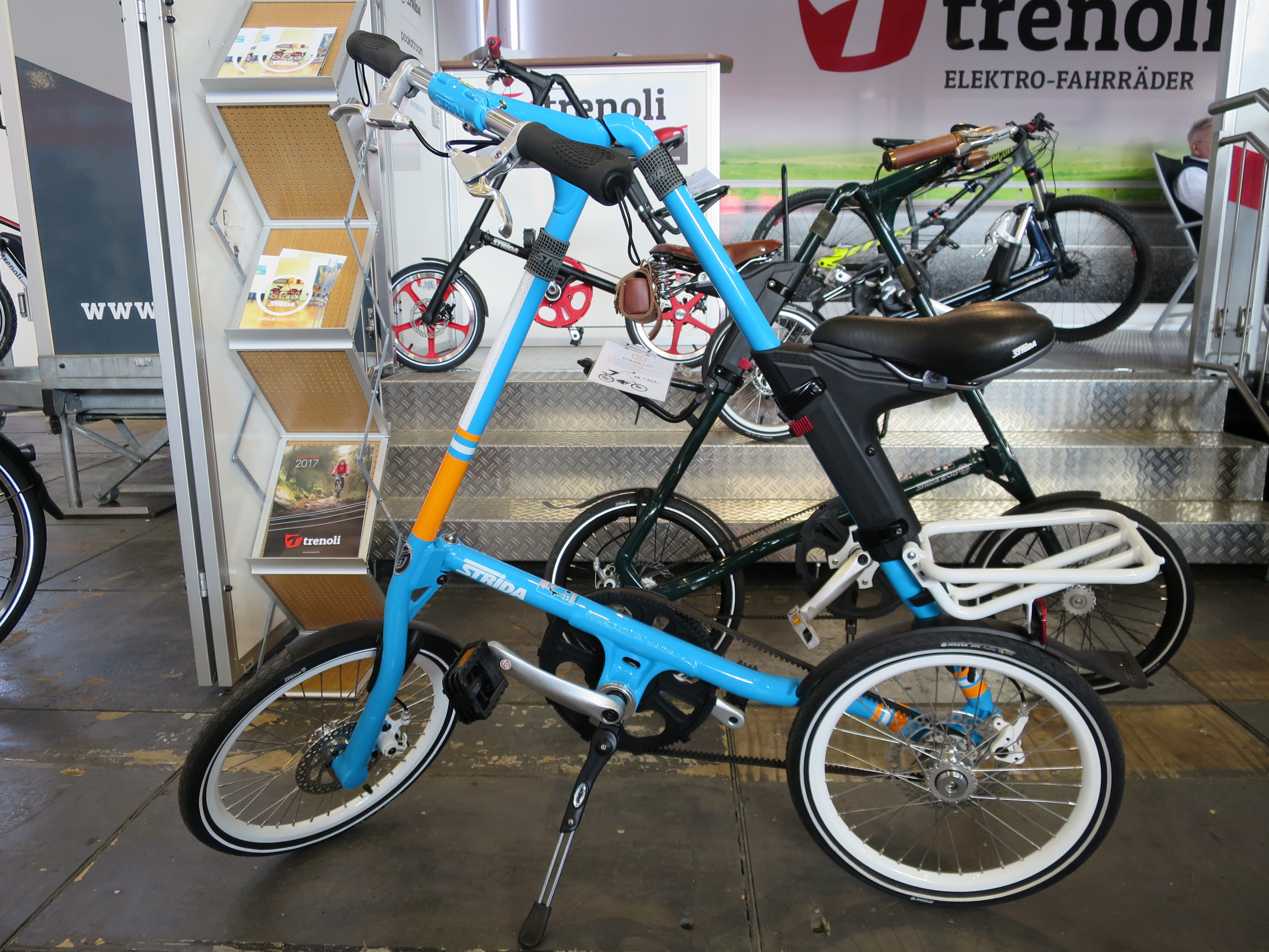 Strida VELO BERLIN 2017.